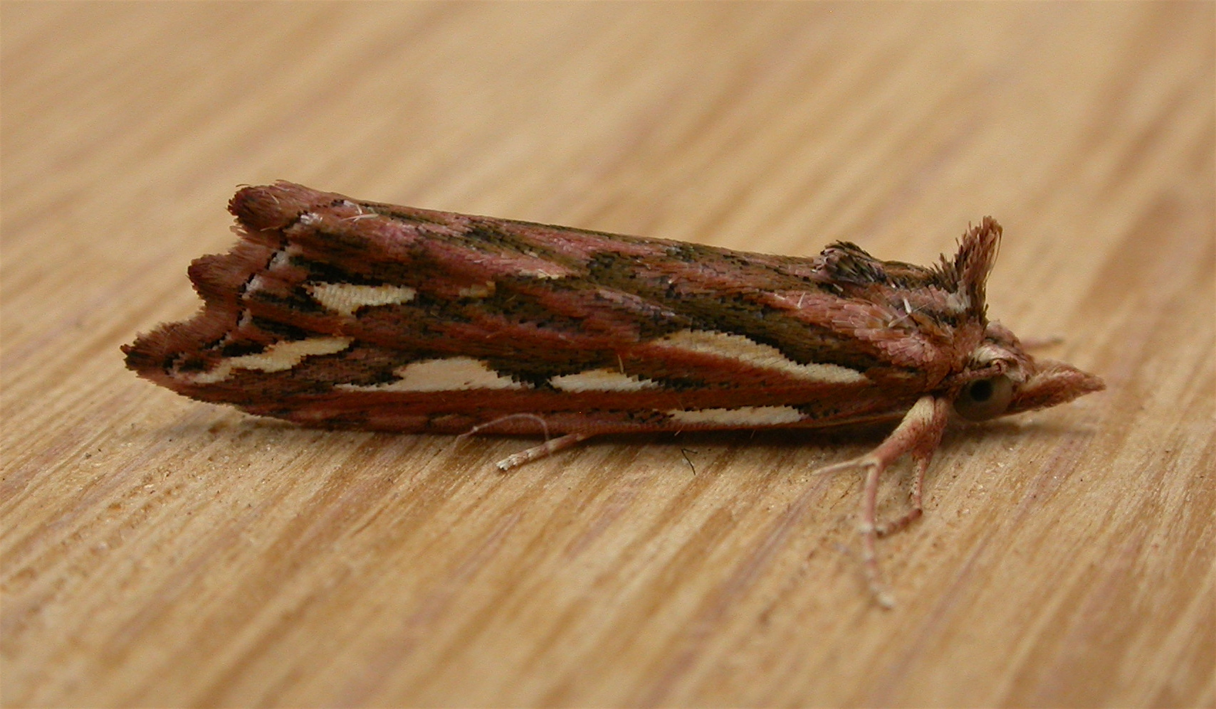 Meyrickella torquesauria (T.P. Lucas, 1892), to MV light, Aranda, ACT, 31 October/1 November 2008